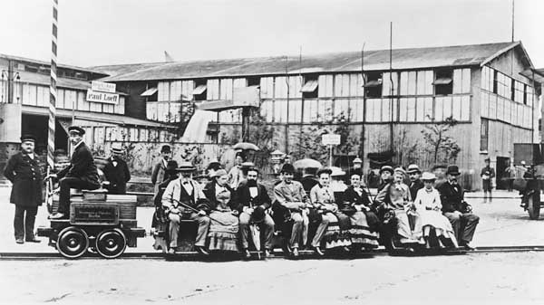 First electric locomotive, build in 1879 by German engineer Ernst Werner von Siemens.